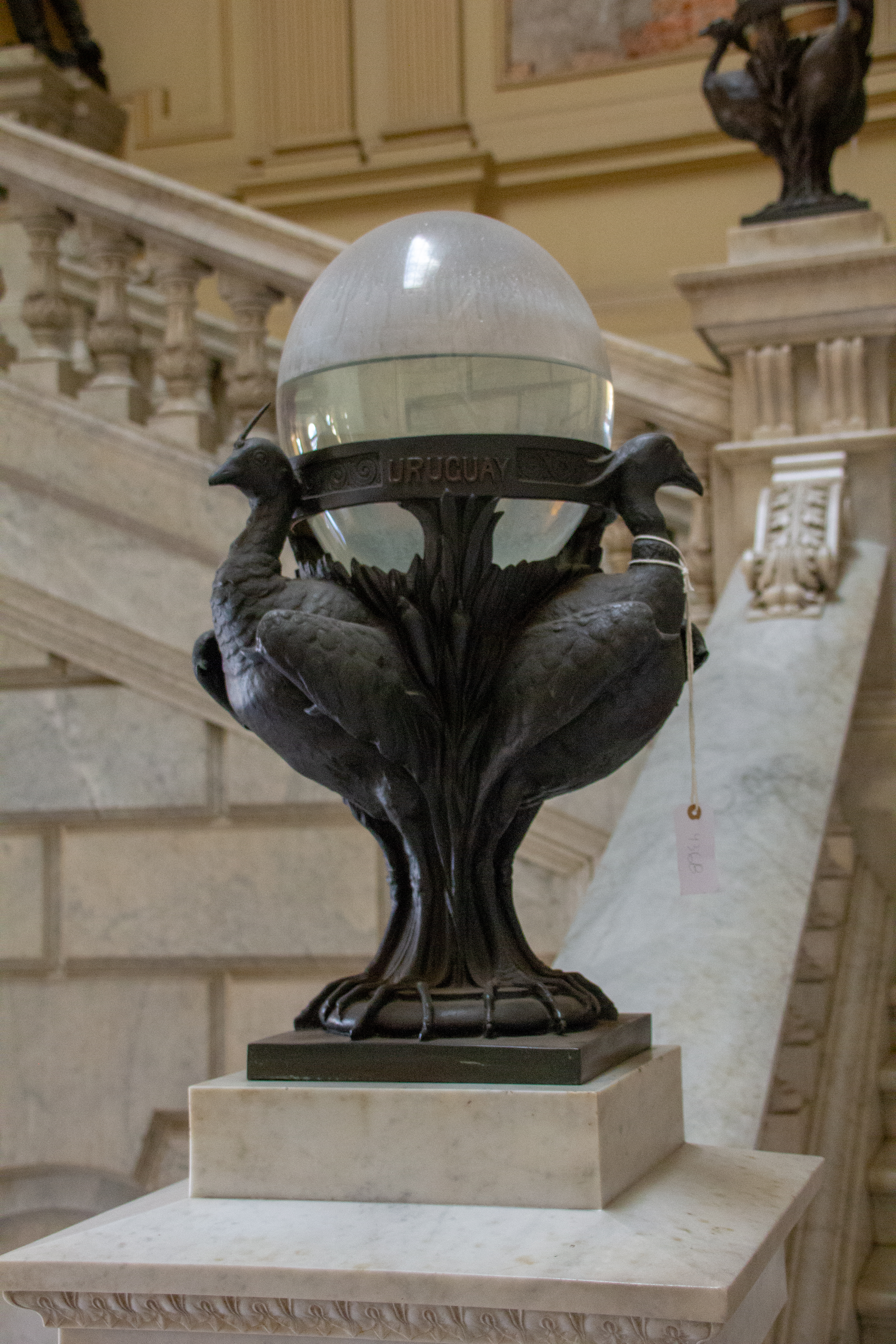 Backstage tour of the Museu do Ipiranga, University of São Paulo, Brazil